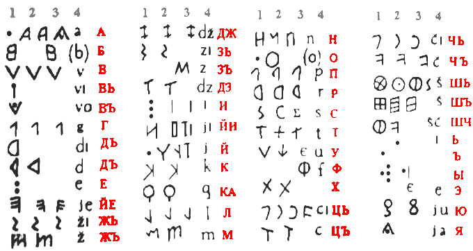 Etruscan alphabet decoded by Prof. Valery Chudinov.